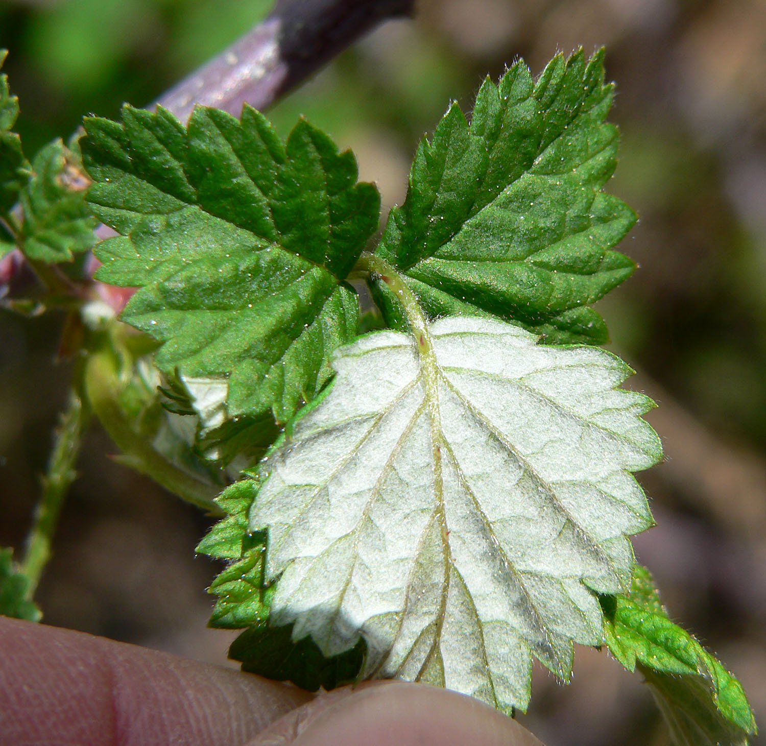 Rubus leucodermis in Carpenter Canyon about 1 km above the road end/turnaround, Spring Mountains, southern Nevada (elev. about 2200 m)